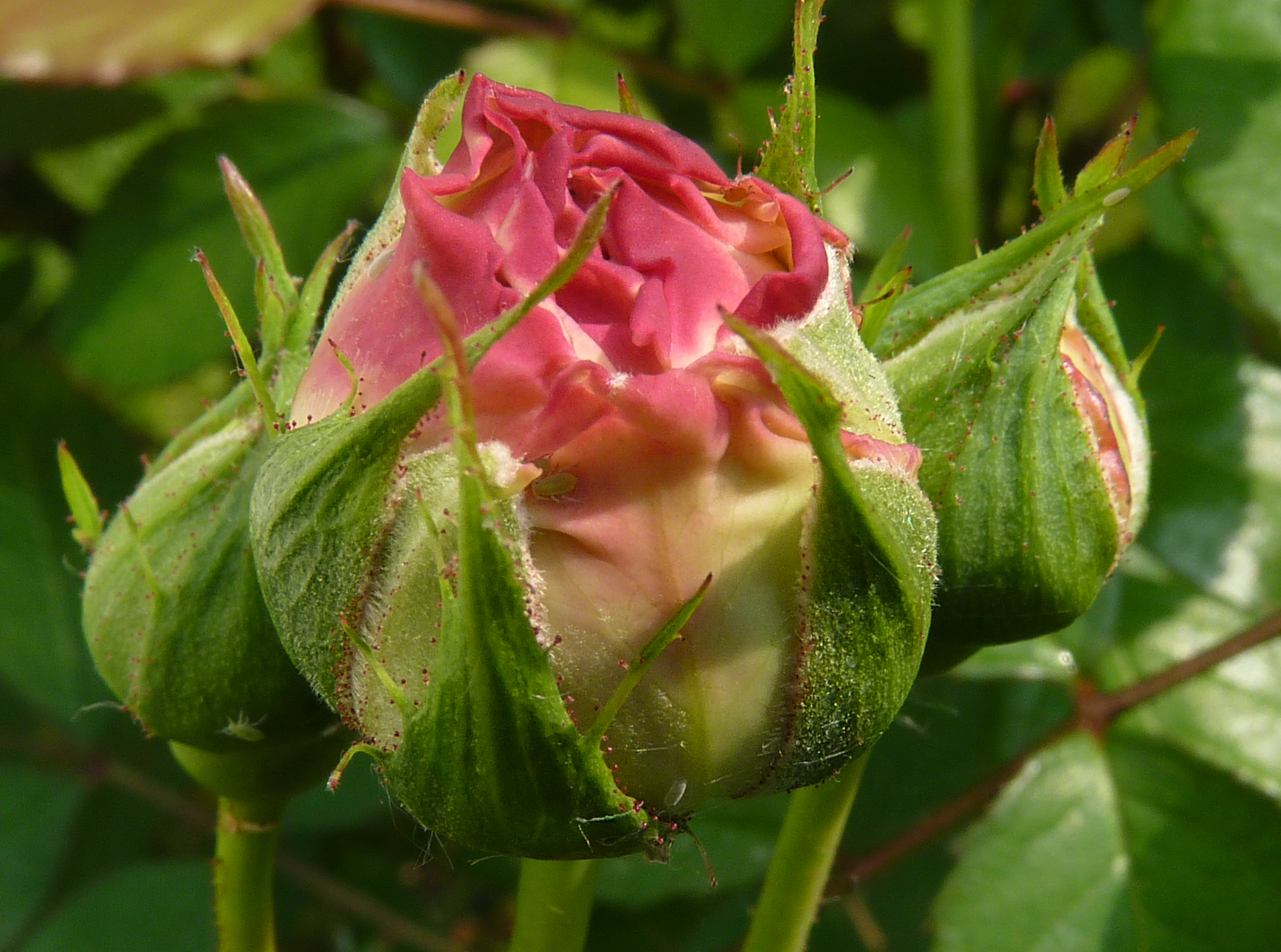 Rosa 'Gruss an Aachen' (Geduldig, 1909), in a garden in Belgium.